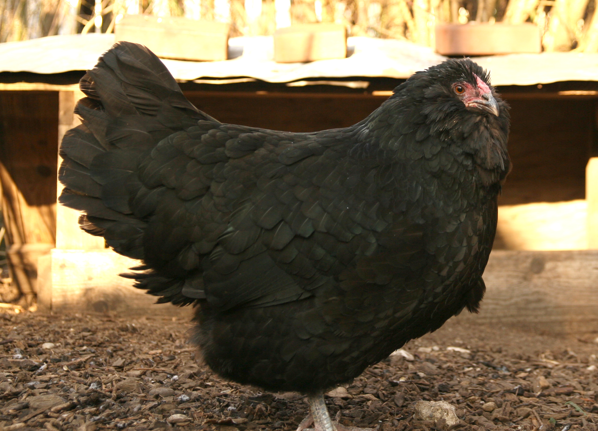 A photo of a hen of the breed "Appenzeller bearded chicken", 7 years old, color black. Photo taken in Munich/Germany.